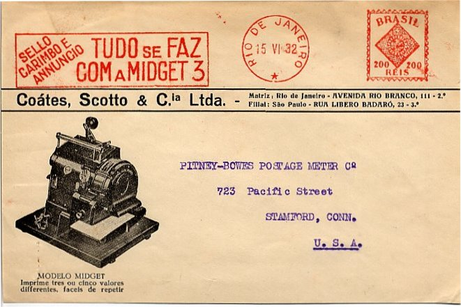 Coates Scotto cover Brazil to Pitney Bowes USA 1932.